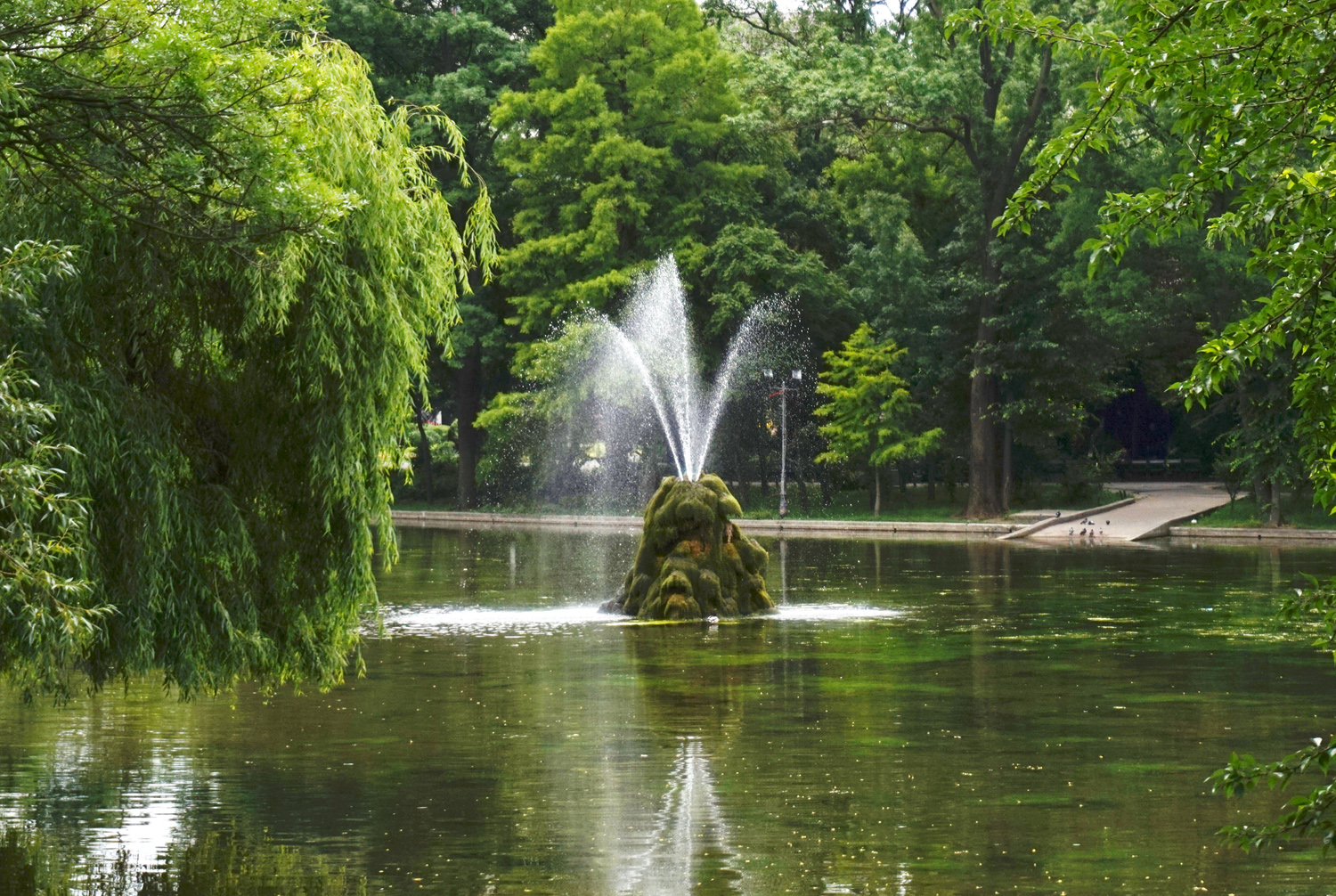 The park Grădina Cișmigiu in Bucharest. This photograph was taken with a Sony Alpha a5000.